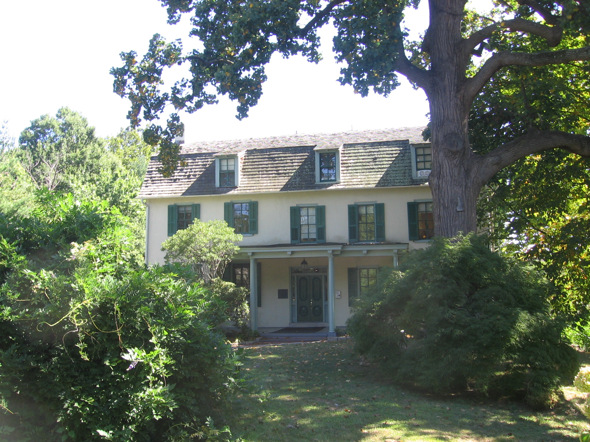 Historic Peale House on Belfield Estate, La Salle University